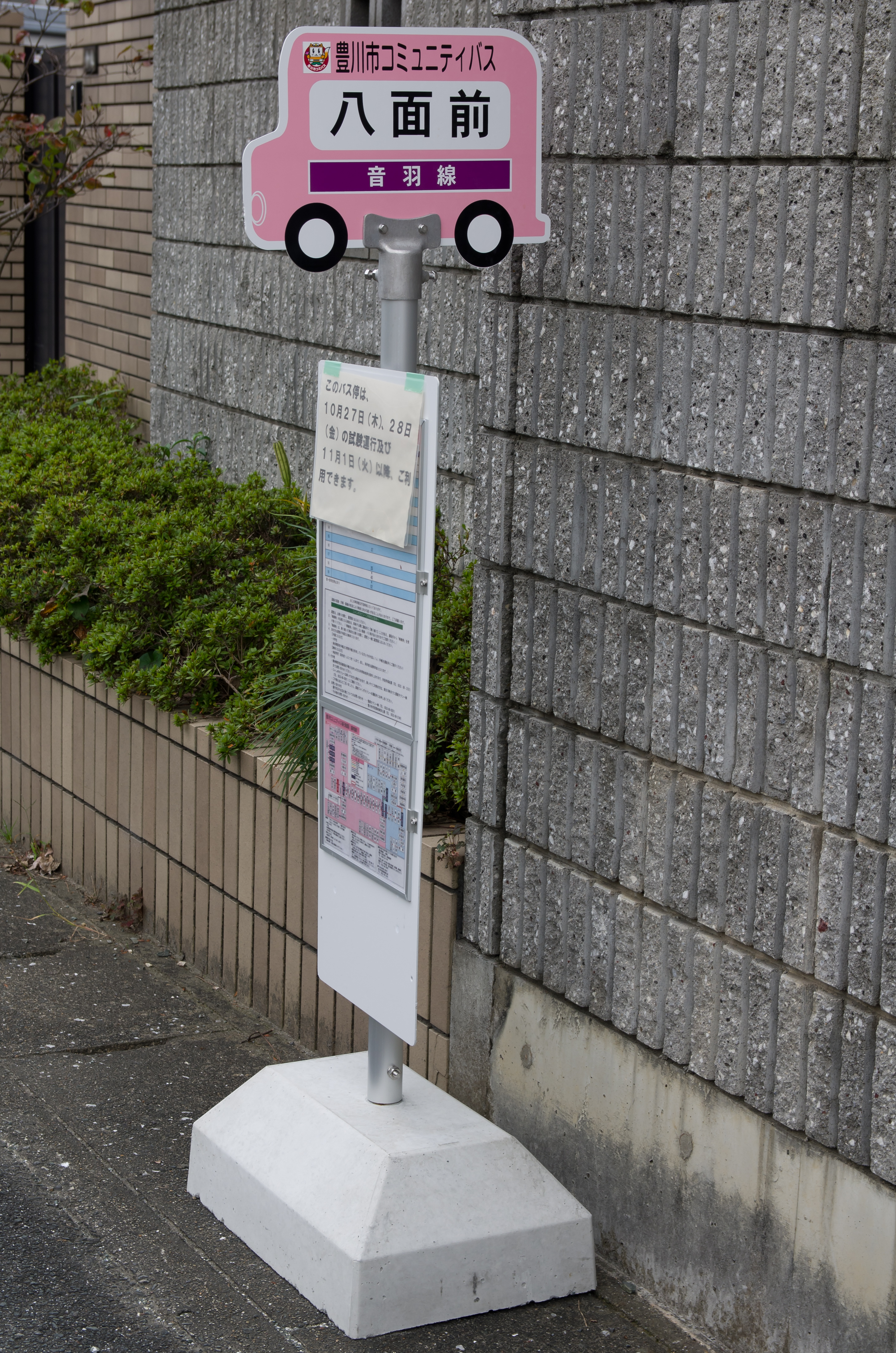 Bus stop sign of Toyokawa City Community Bus (at Hachimemmae)